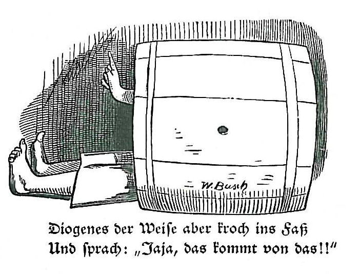 Illustration of Wilhelm Busch's story "Die bösen Buben von Korinth" (from: Fliegende Blätter und Münchener Bilderbogen 1859-1871)